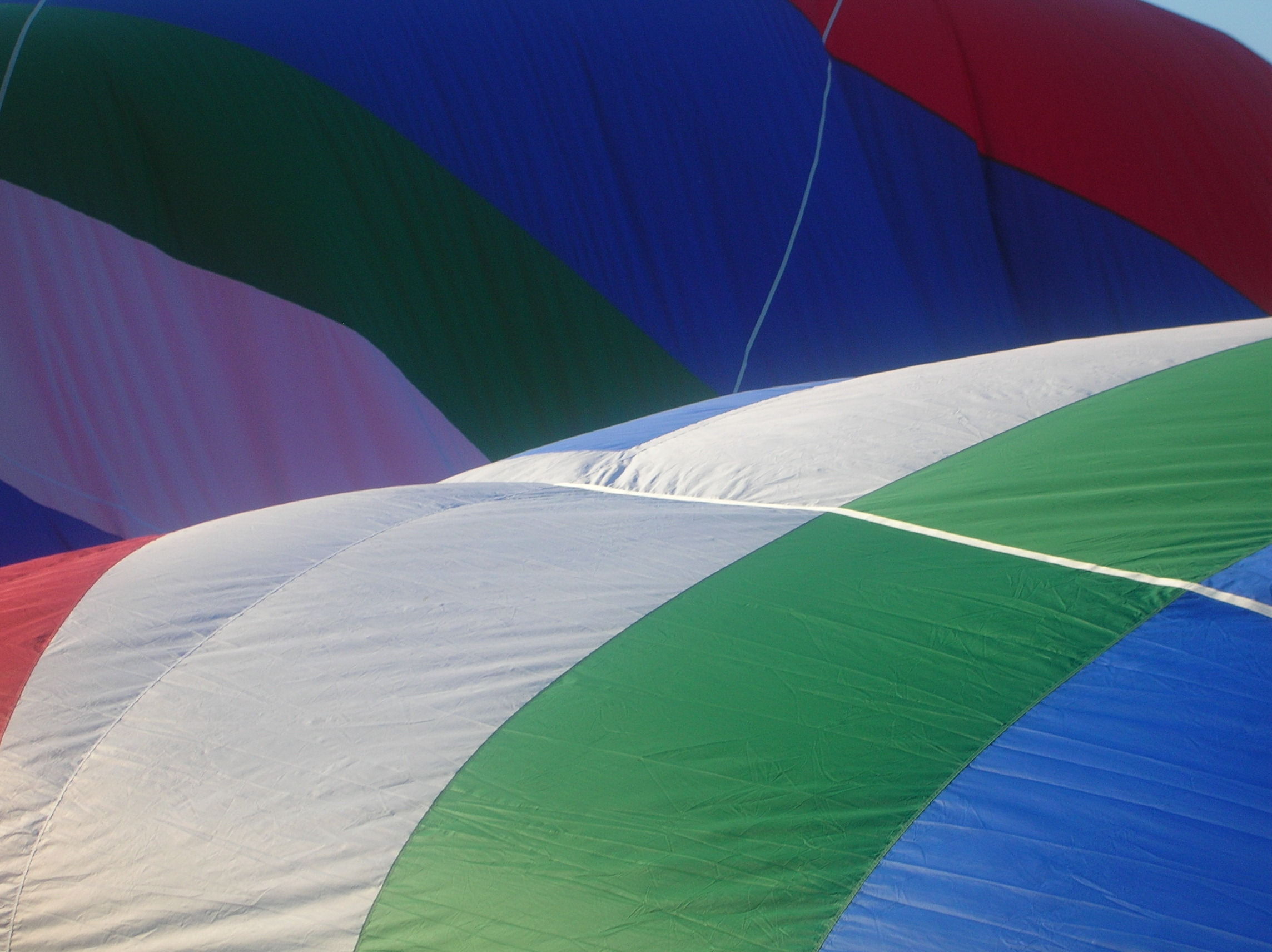 Preparations for a hot air balloon ride near Ottawa: Recognizing that the colors in the sunlight and in the shade are the same is an example of color constancy.